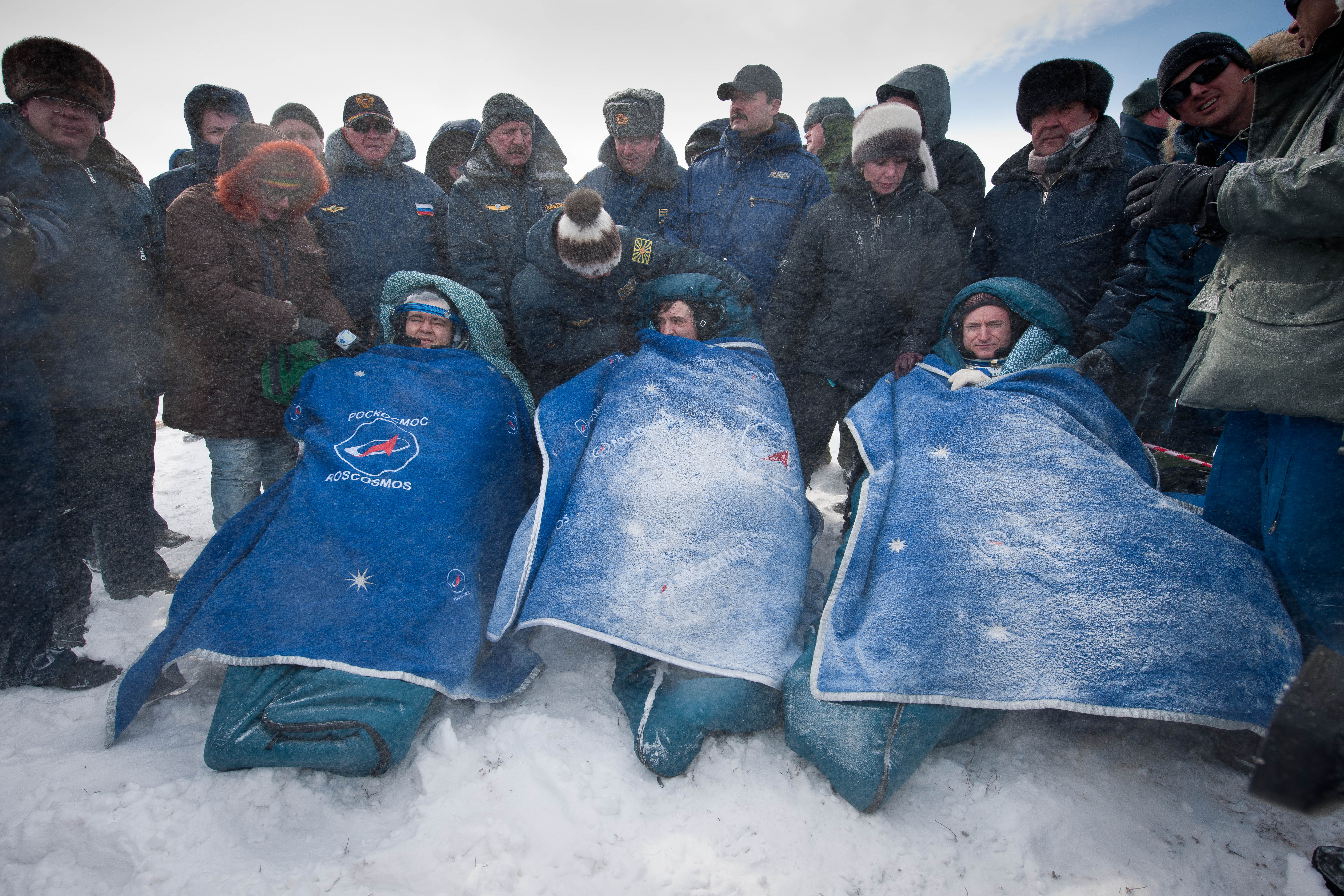 Russian cosmonauts Oleg Skripochka (left) and Alexander Kaleri (center), both Expedition 26 flight engineers; and NASA astronaut Scott Kelly, commander, sit in chairs outside the Soyuz capsule just minutes after they landed near the town of Arkalyk, Kazakhstan on March 16, 2011. Kelly, Skripochka and Kaleri are returning from almost six months onboard the International Space Station where they served as members of the Expedition 25 and 26 crews.